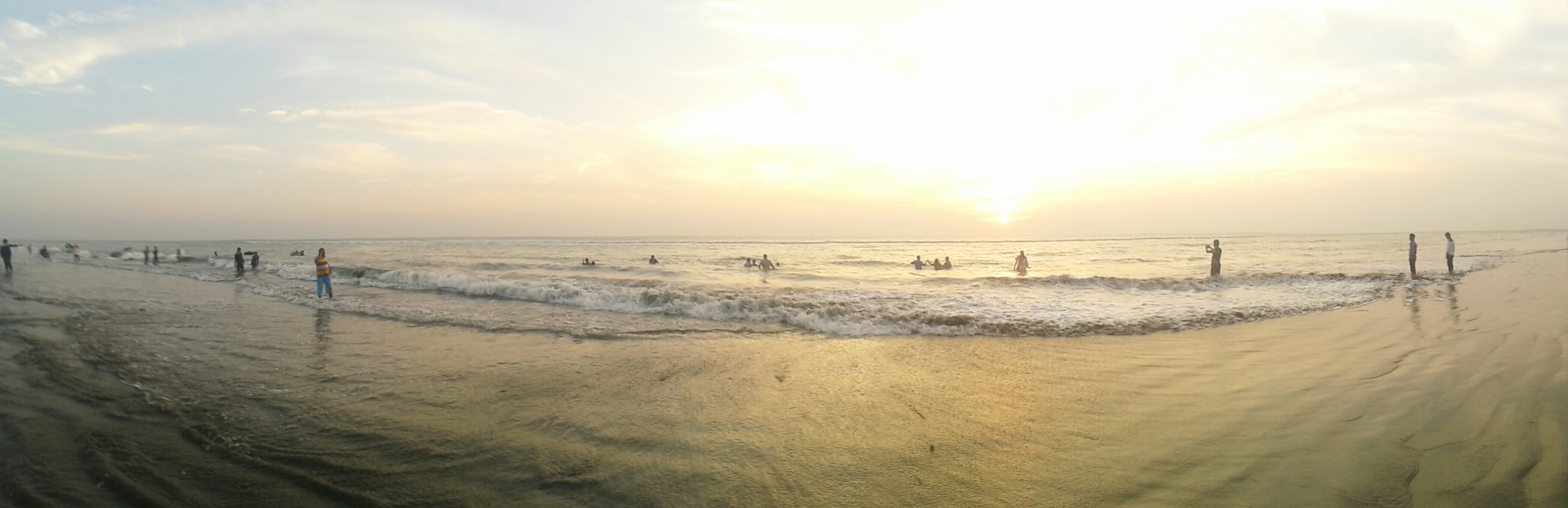 Cox's Bazar beach